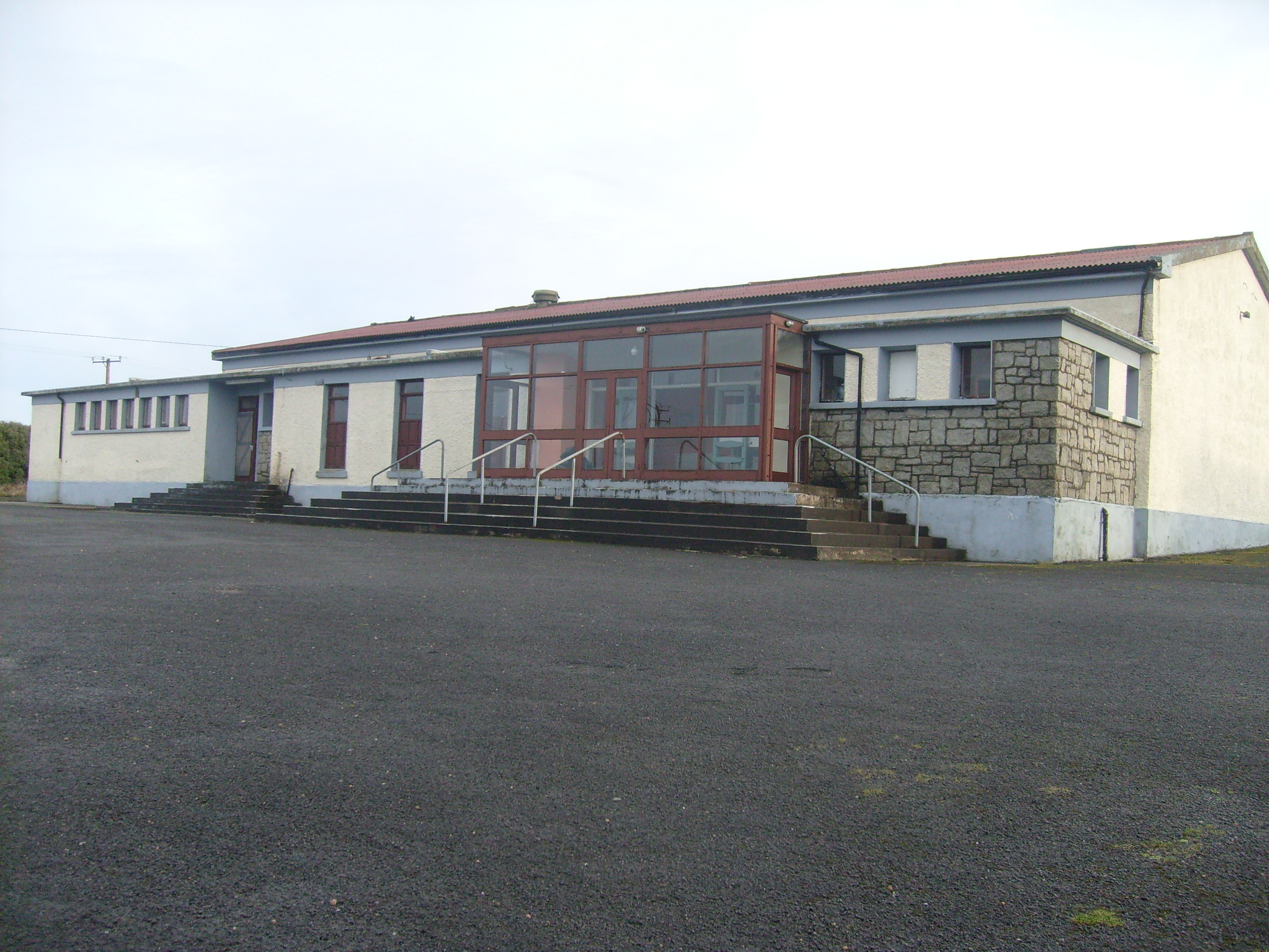 An image of Gweedore Theatre